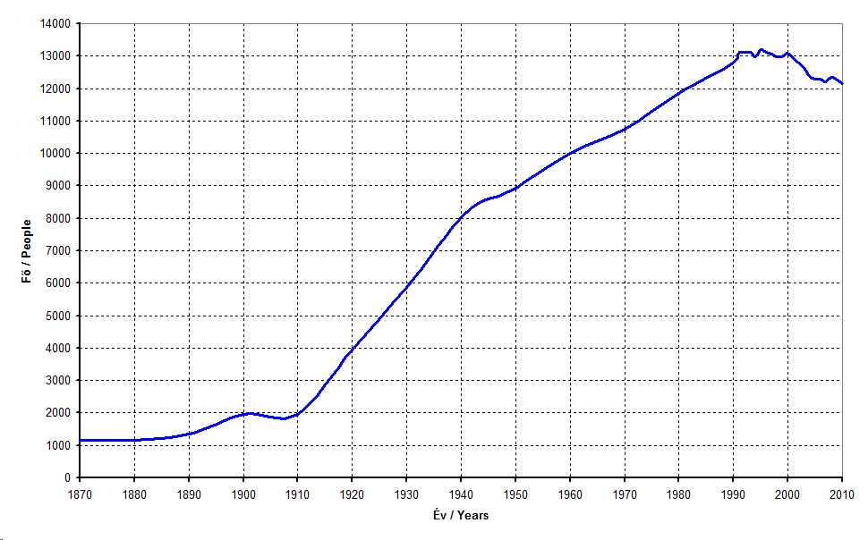 Population change of Dorog (1870-2008)